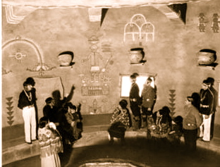 Grand Canyon National Park Museum Collection #8504